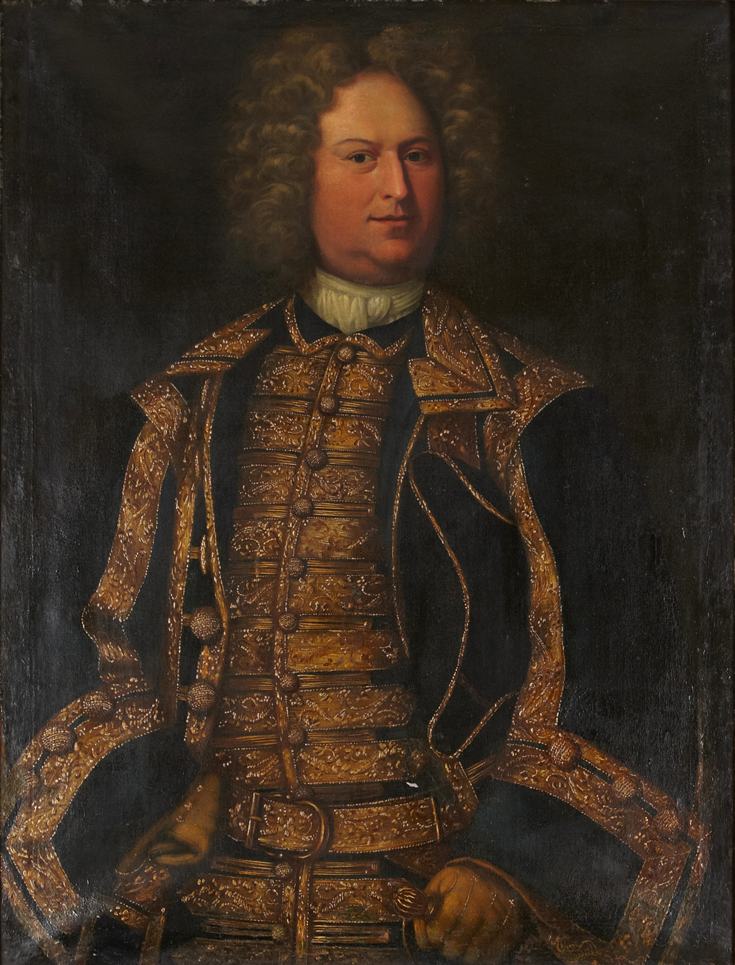 Portrait of Count Carl Gustav Rehnskiöld (1651-1722)